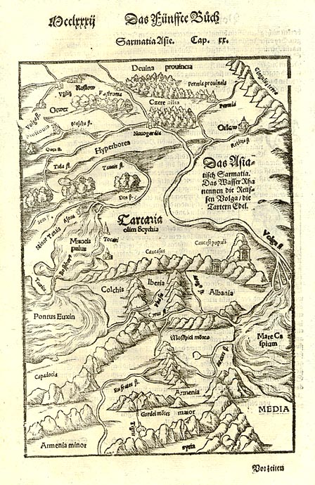 Ptolemy's 3rd Asian Map, showing Armenia Major, Colchis, Iberia, and Albania.Detailed map of the region from the Volga and the Caspian to the Black Sea, extending North of the Caucus Mountains to Deuina and Uglitz. Also shows the Don and the Euphrates. Munster's Cosmography was one of the most influential geographical works of the 16th Century. It was published in a number of editions over a half century and was continuously revised and updated to include new illustrations and updated information.